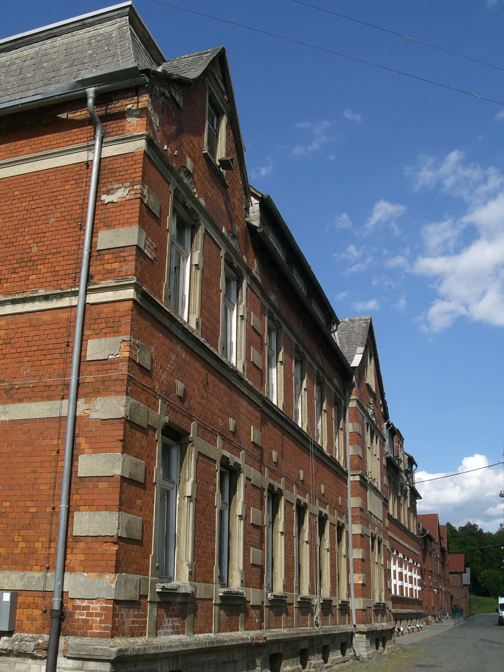 Wilhelmshall, Huy, Saxony-Anhalt, Germany